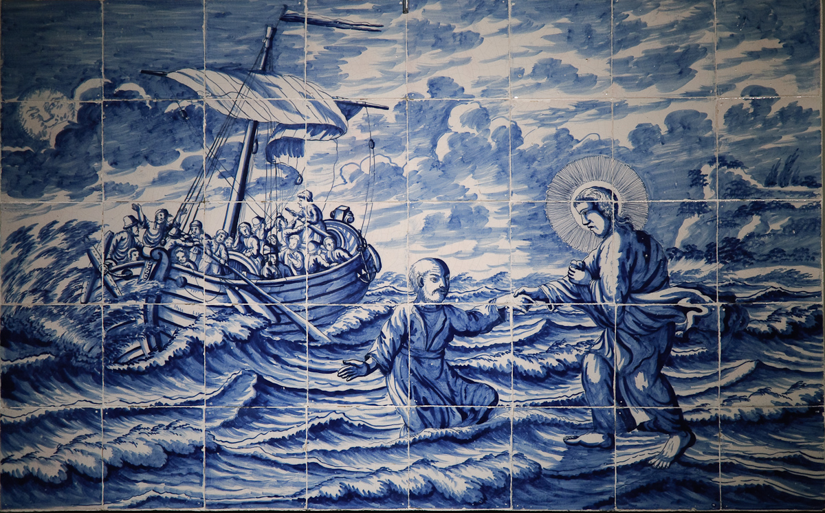 Tile picture with Jezus on the Sea of Galilee. Netherlands, Friesland. ± 1758. Painter: Dirk Danser. Earthernware with tinglaze The tile picture was painted from a print by Jan Luyken in De schriftuurlyke Geschiedenissen en Geliykenissen (Biblical Stories and Parables) from 1712. Dirk Danser was an artist who, in addition to creating oil paintings, also painted tile scenes for various Frisian potteries on request. He was a seascape artist and his specialism is easily recognized in the representation of water and skies.